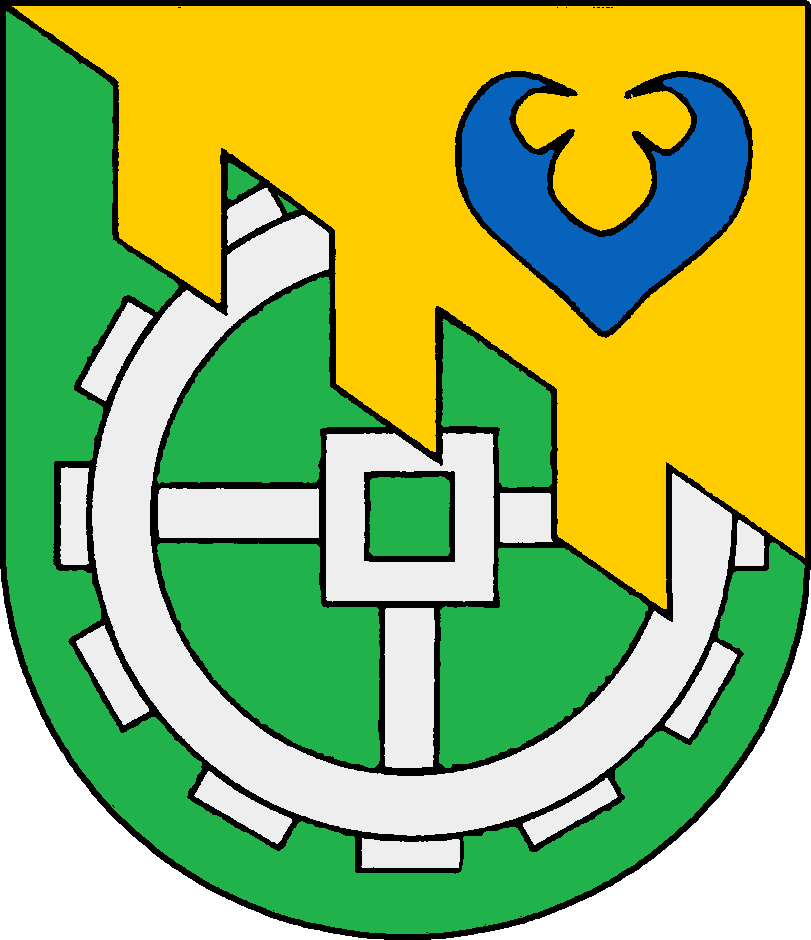 Coat of arms of the municipality Mucheln in Schleswig-Holstein, Germany.